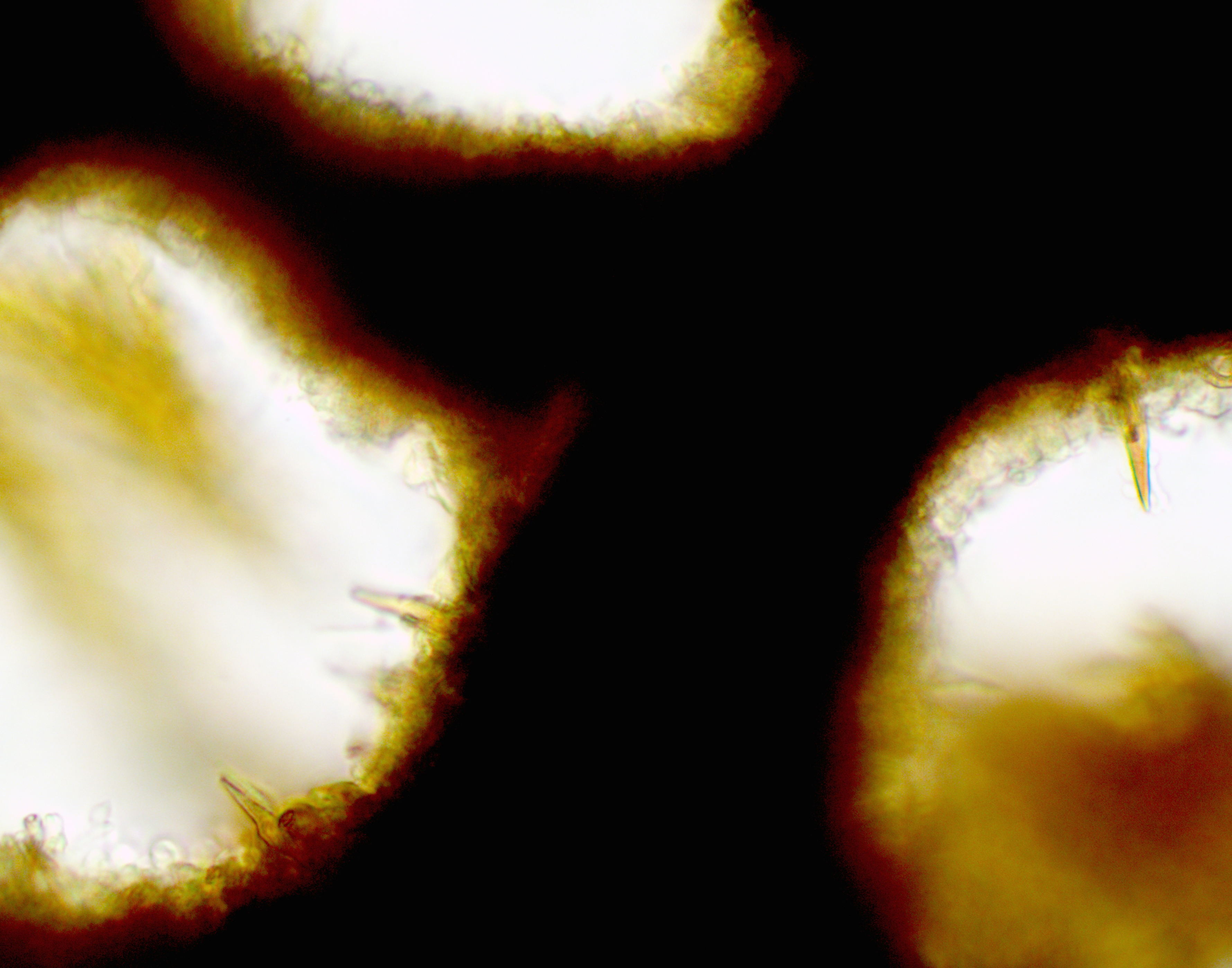 Pointed setae protruding into the fertile surface tubes of the bracket fungus Phellinus gilvus. Click on image.